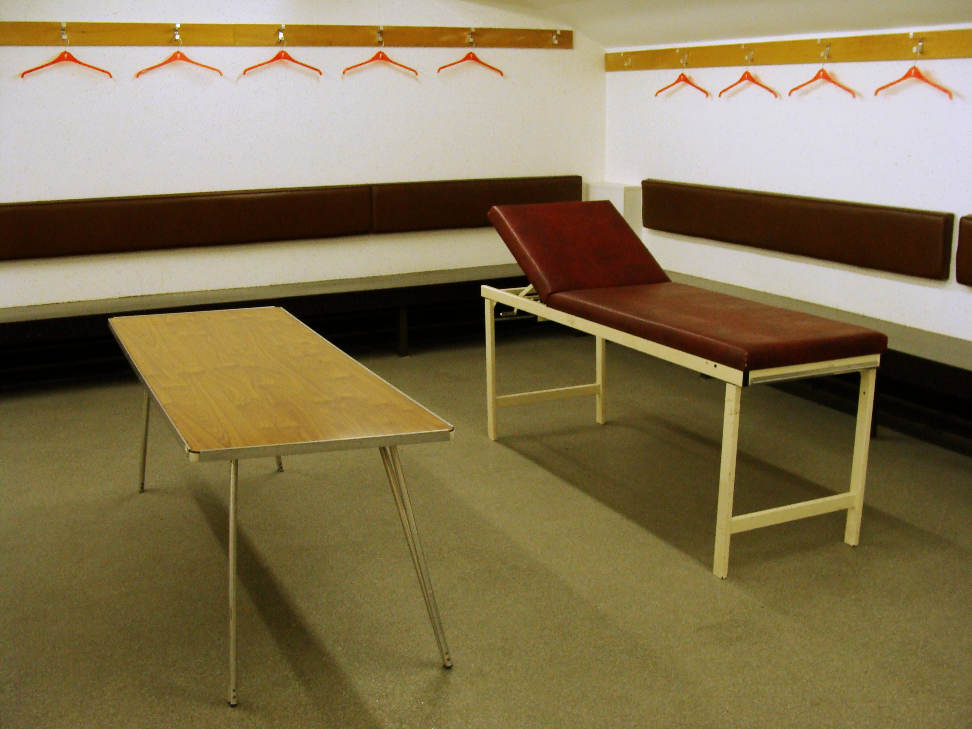 The opposition changing room at Anfield